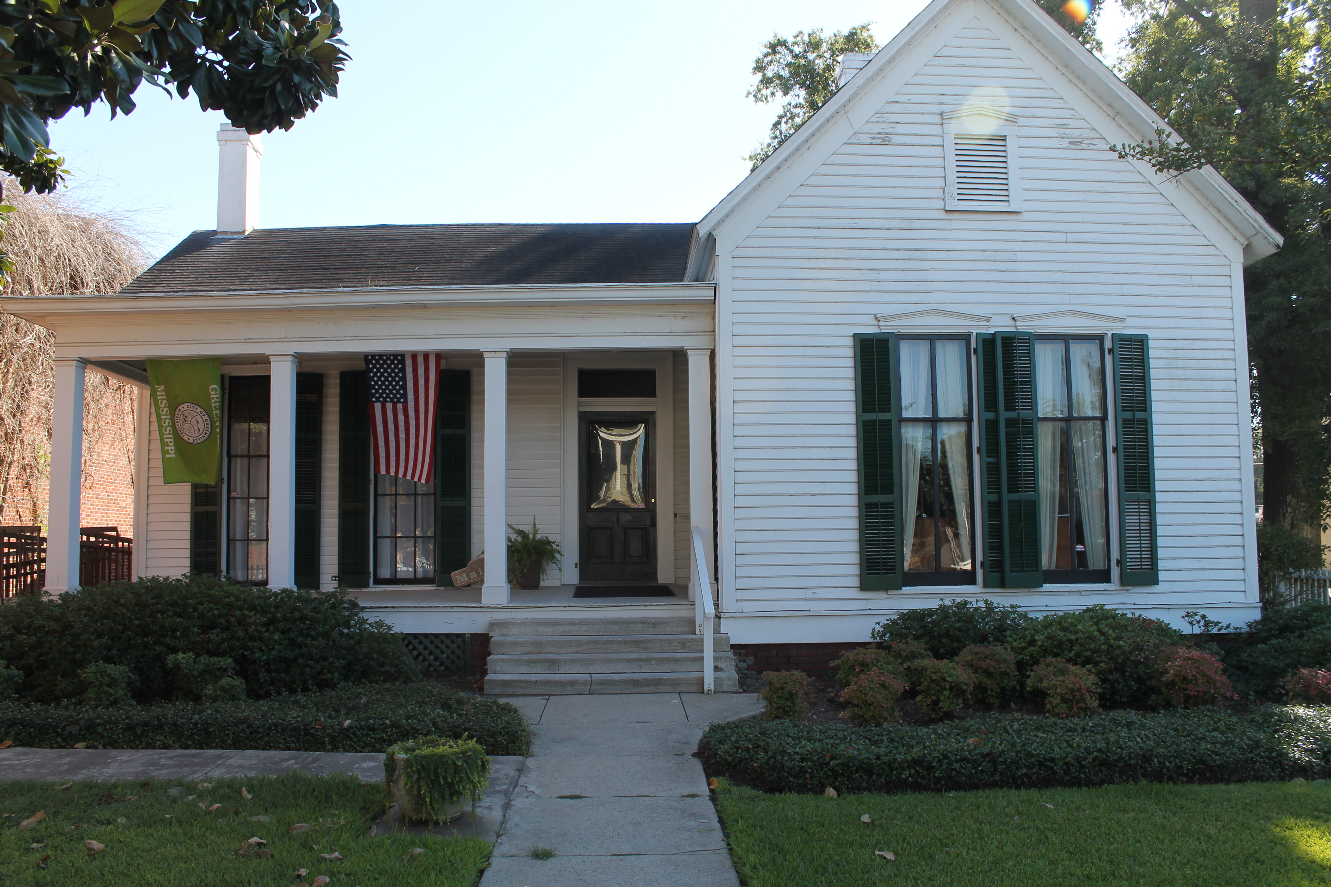 Wetherbee House, 509 Washington Ave. Greenville, MS